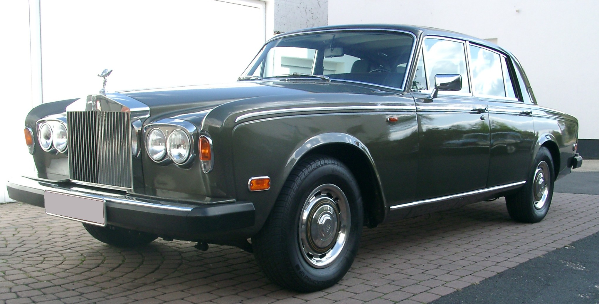 Rolls-Royce Silver Shadow II